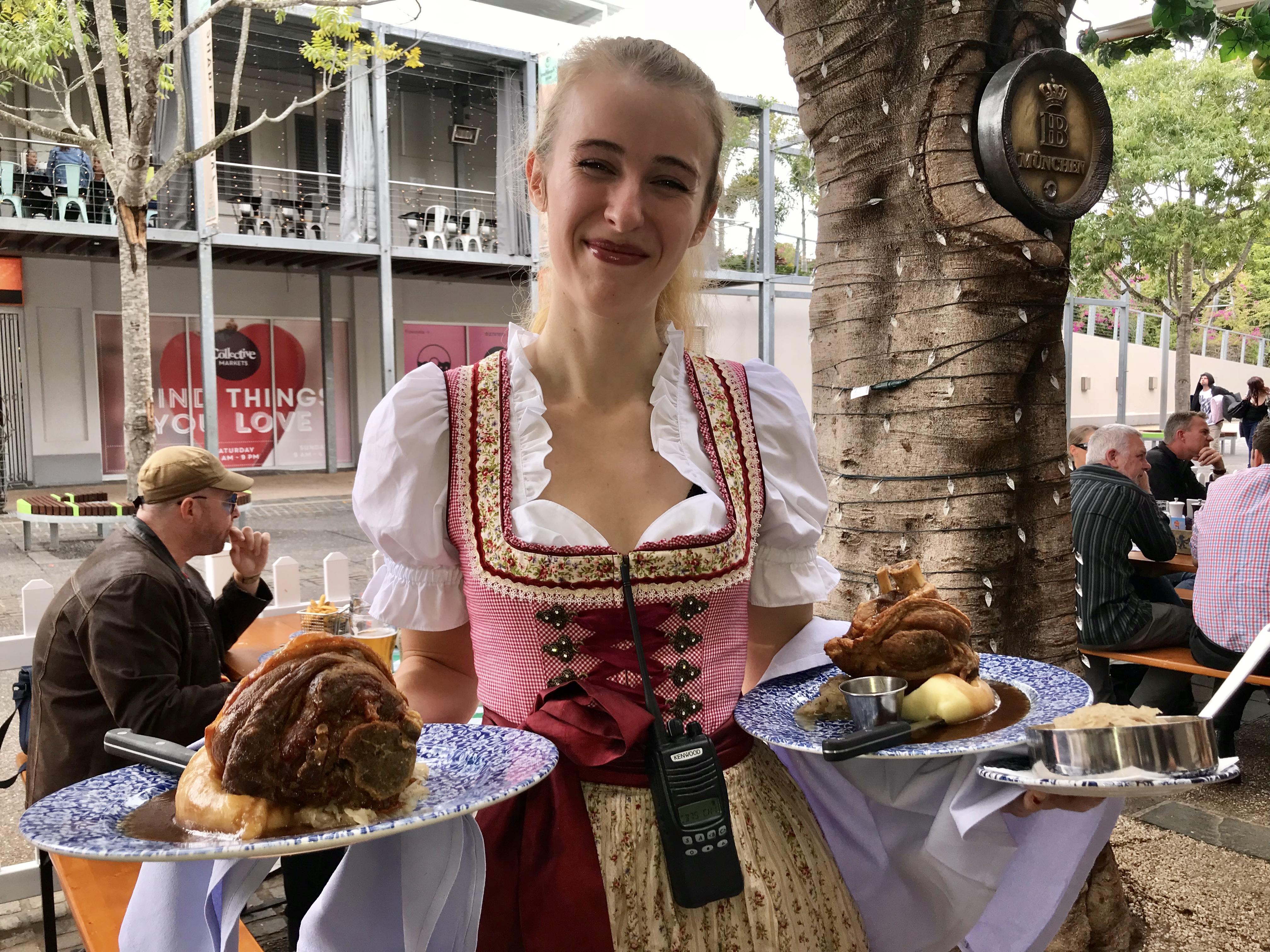 Waitress at Munich Brauhaus South Brisbane